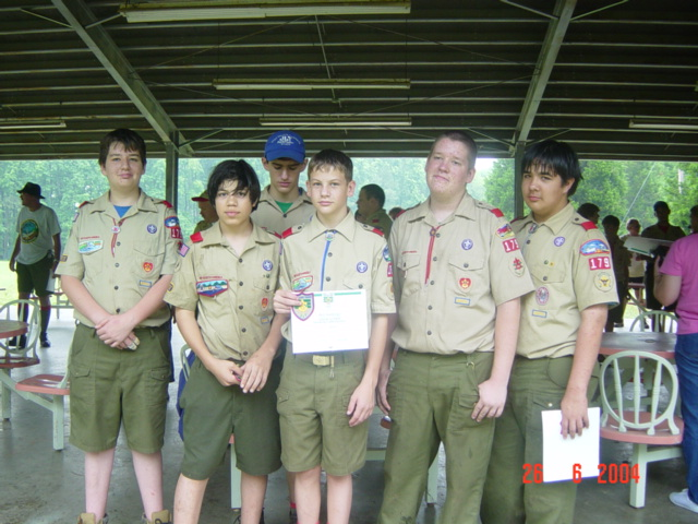 Five new graduates of BSA's Pathfinder Junior Leader Training Class in June 2004, at the OA Shelter at Pipsico's Camp Lions. The five Scouts in the front were participants and the one in the back with the blue hat was a youth staffer. Course was 20-26, 2004, photo taken June 26, 2004.